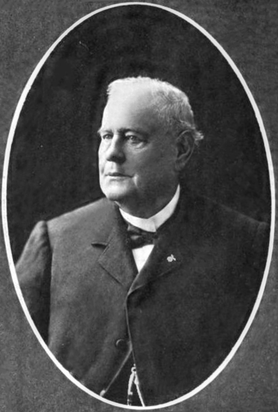 William Hayes Perry (1832-1906), American businessman and entrepreneur.